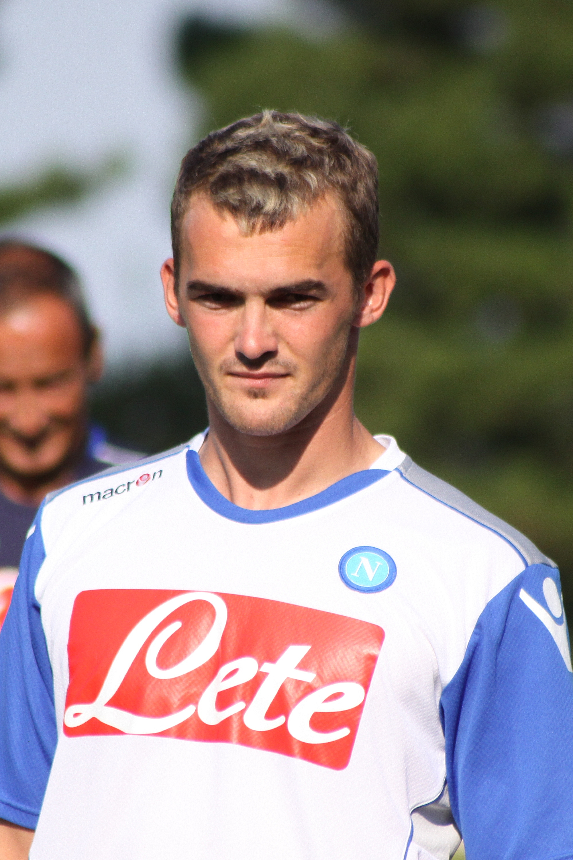 Erwin Hoffer - SSC Neapel (1) Erwin Hoffer - Società Sportiva Calcio Napoli